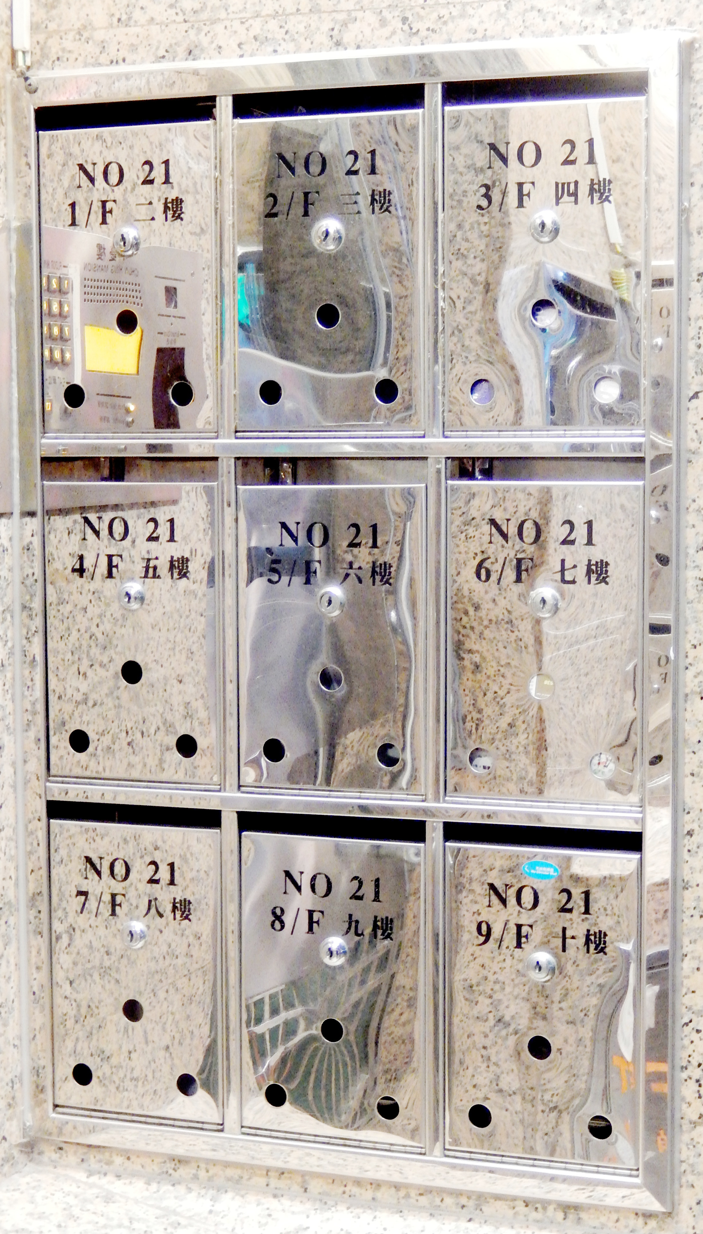 One of the two sets of letter boxes of Chun Hing Mansion in King Kwong St., Happy Valley, Hong Kong. Floor numberings are different in Chinese and English.